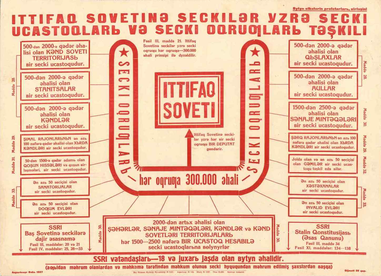 Poster of Azerbaijan 1937. İttifaq Sovetinə seçkilər